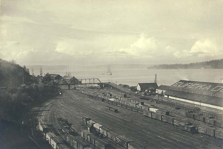 Looking northwest from the Northern Pacific Railroad freight yards and warehouses at north end of Pacific Ave., Shows the Eureka Dock and warehouse. Subjects (LCTGM): Railroad freight cars--Washington (State)--Tacoma; Warehouses--Washington (State)--Tacoma; Piers & wharves--Washington (State)--Tacoma Subjects (LCSH): Northern Pacific Railroad Company; Pacific Avenue (Tacoma, Wash.); Commencement Bay (Wash.)